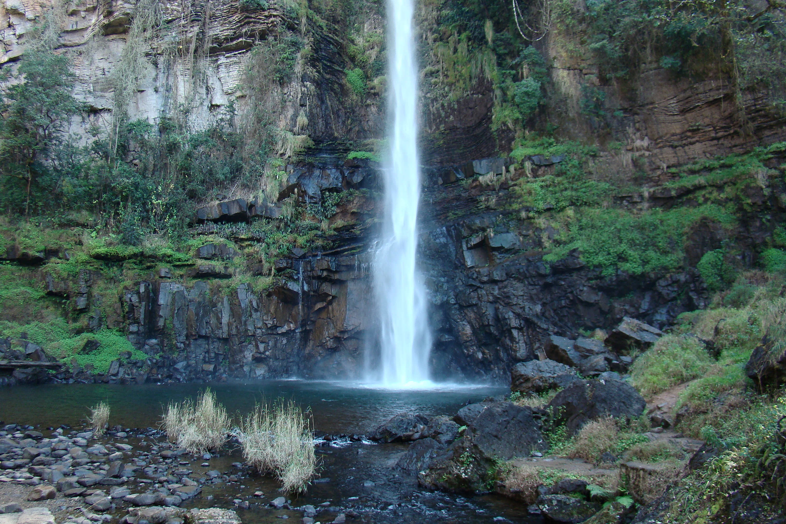 The Lone Creek Waterfall, in the Sabie area, South Africa.